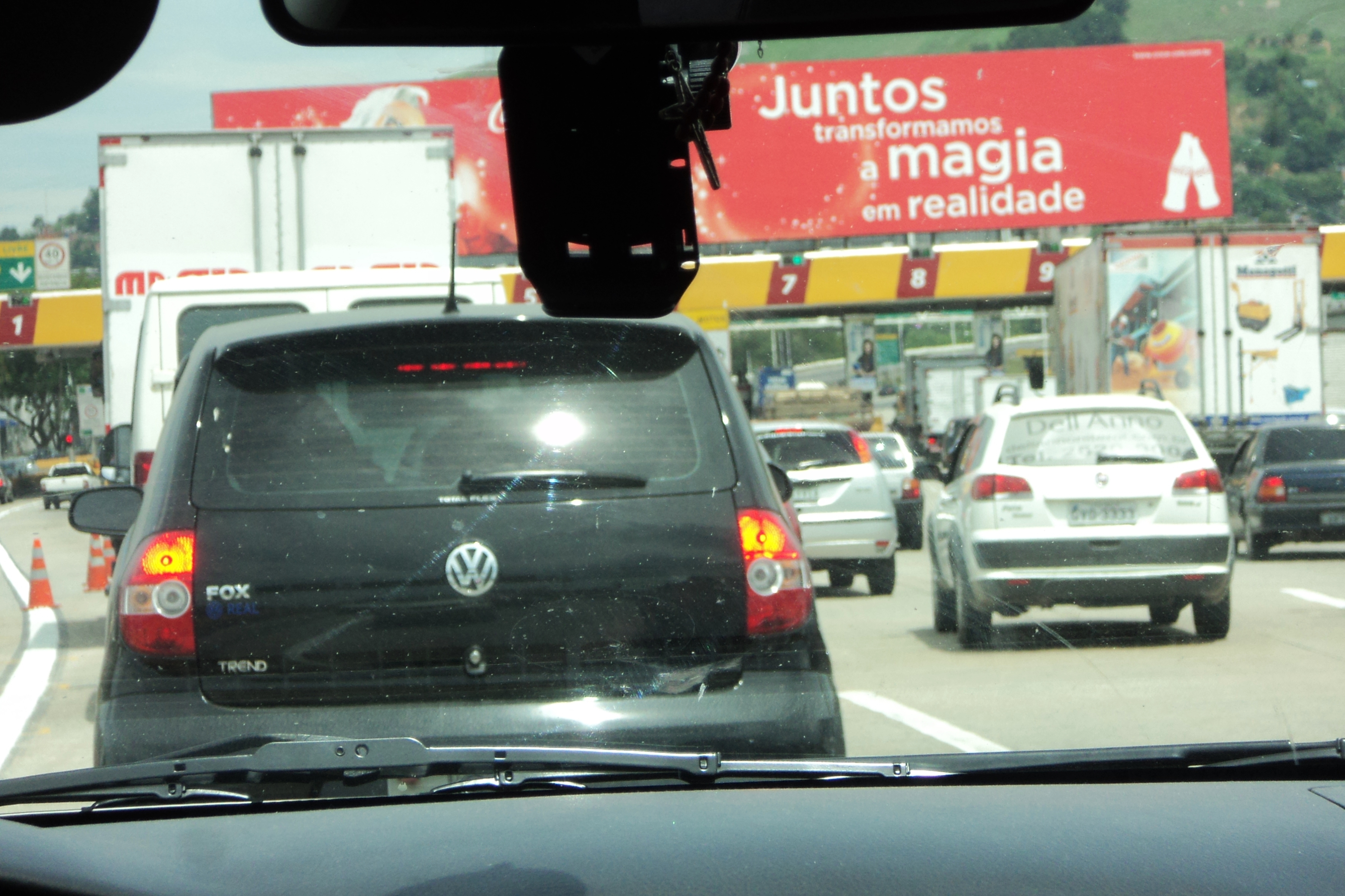 Traffic congestion in a toll of the Rio–Niterói Bridge, in Niterói, Rio de Janeiro, Brazil.